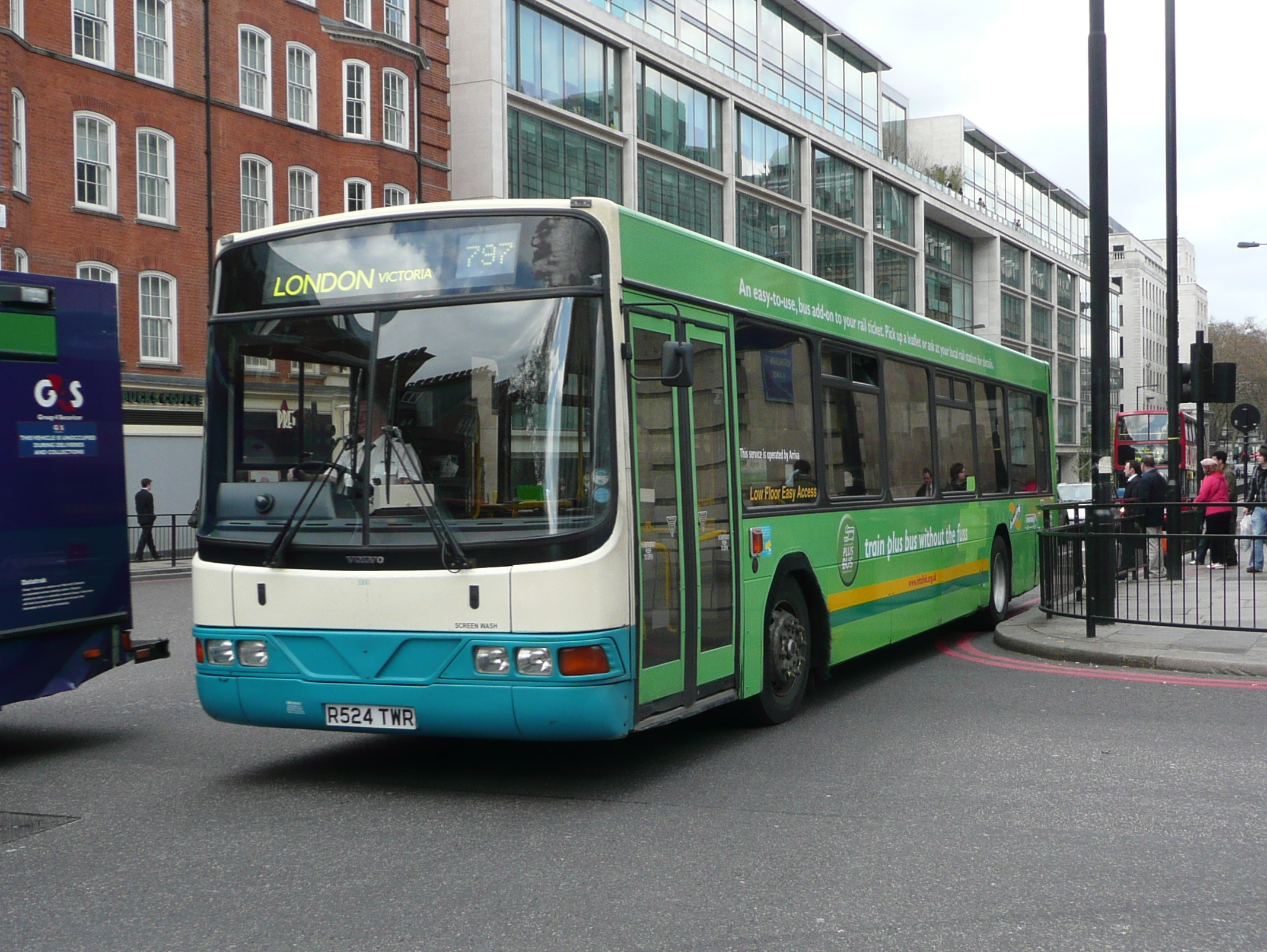 An Arriva Shires and Essex bus covering for a usual coach on Green Line route 797.